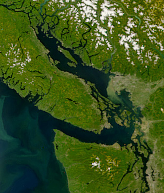 Satellite image of the Strait of Georgia, Strait of Juan de Fuca, and surrounding region. The image was acquired by the Sea-viewing Wide Field-of-view Sensor (SeaWiFS) on August 9, 2001. Original image cropped to highlight the Strait of Georgia.